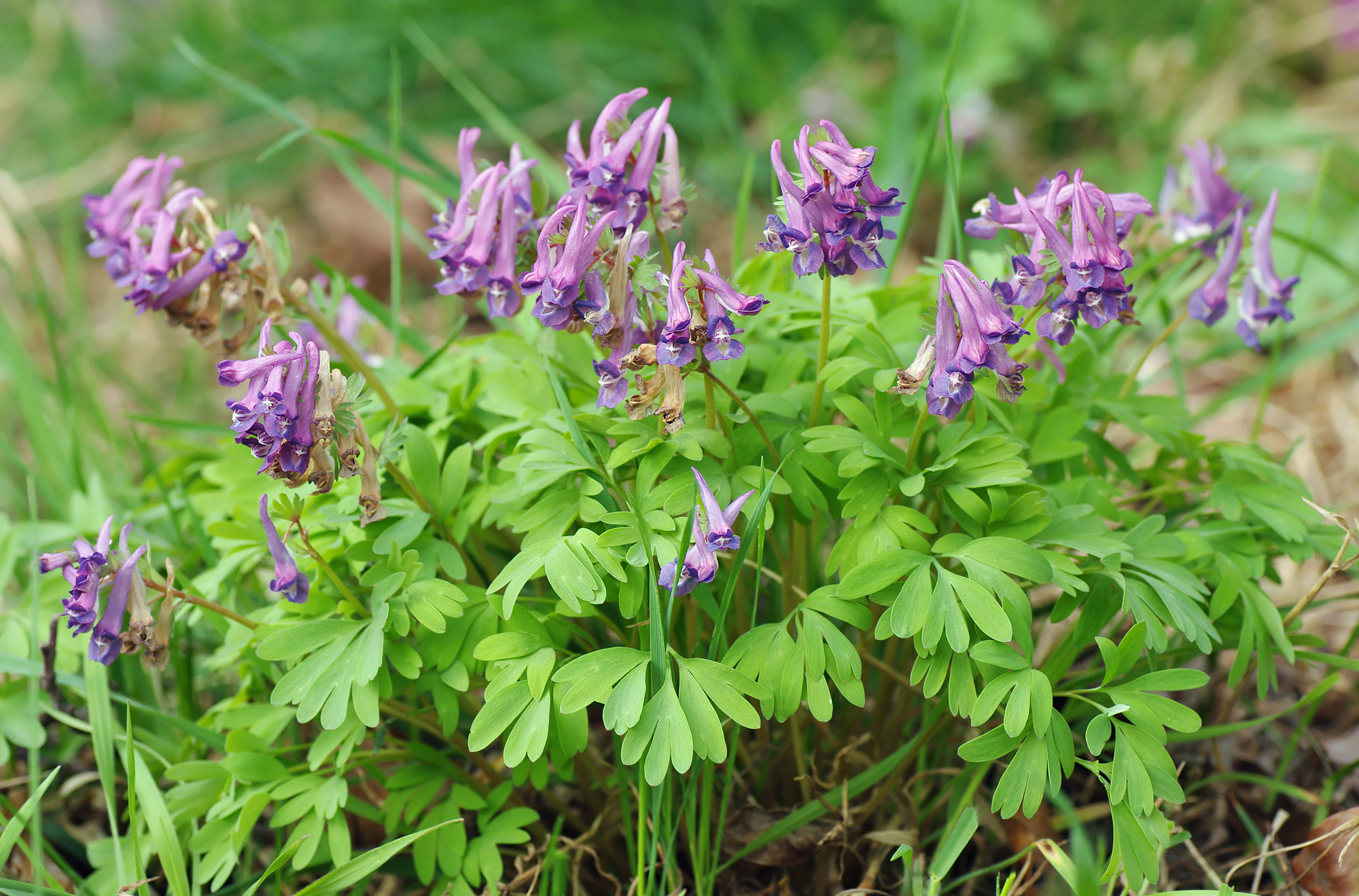 Plant Solid tubered Corydalis, Corydalis solida – found in the open field outside of gardens (but believed to be synanthrope at that locality). Height about 10 cm.